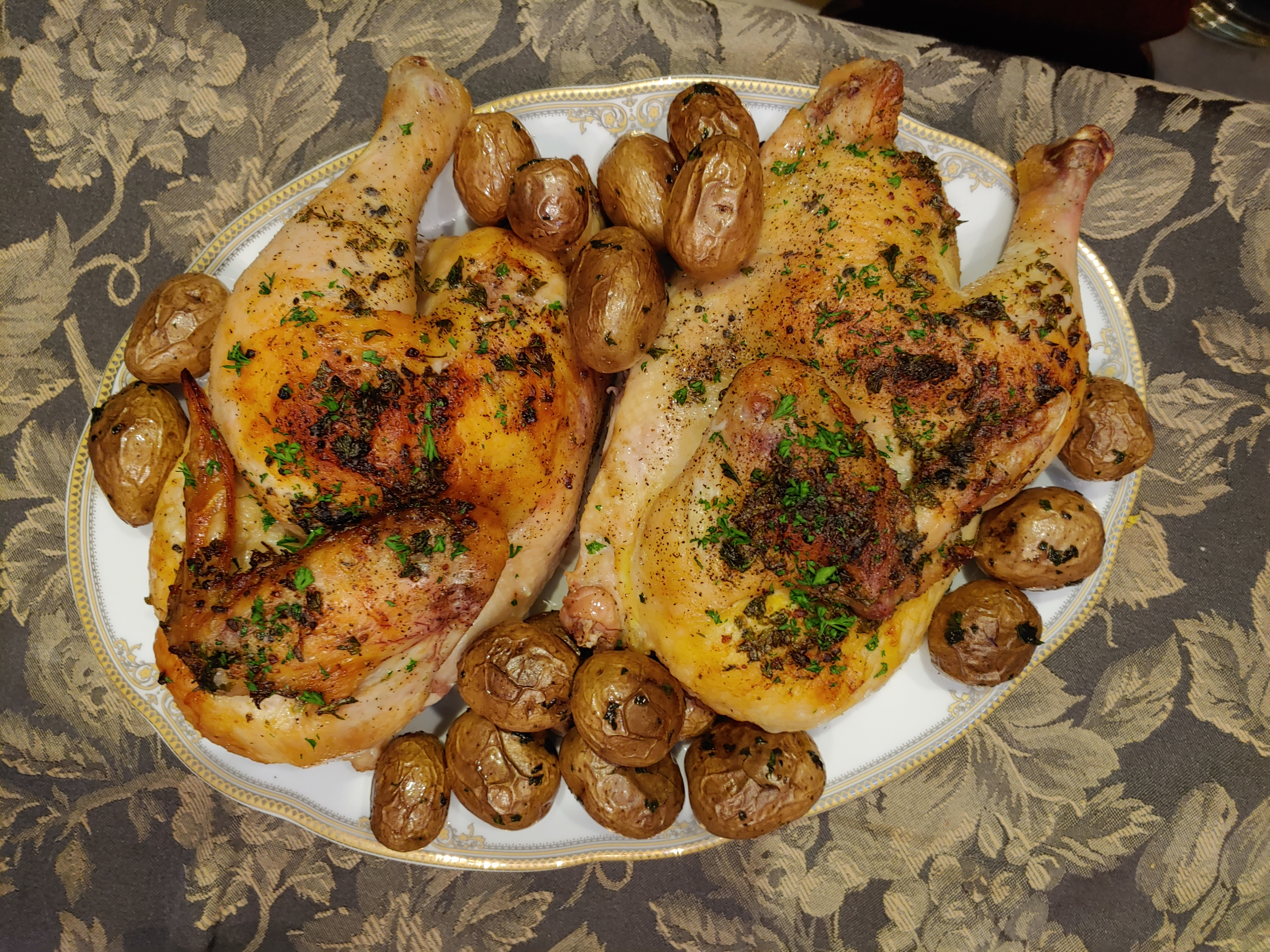 Garlic, Lemon and herb roasted chicken, two halves.